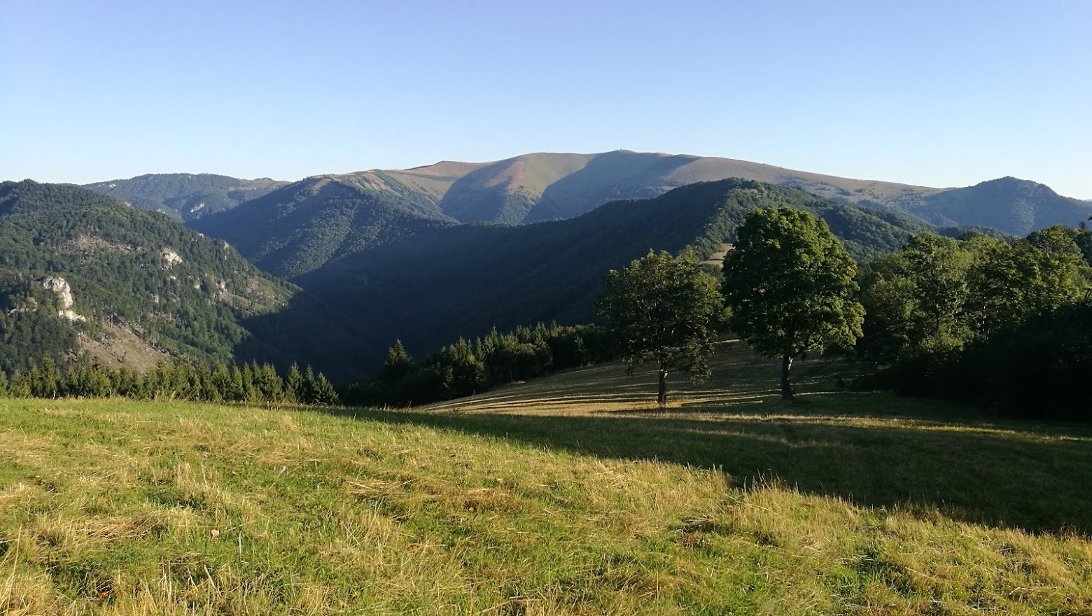 view from peak Zadný Japeň (1065 m) to Krížna peak relief